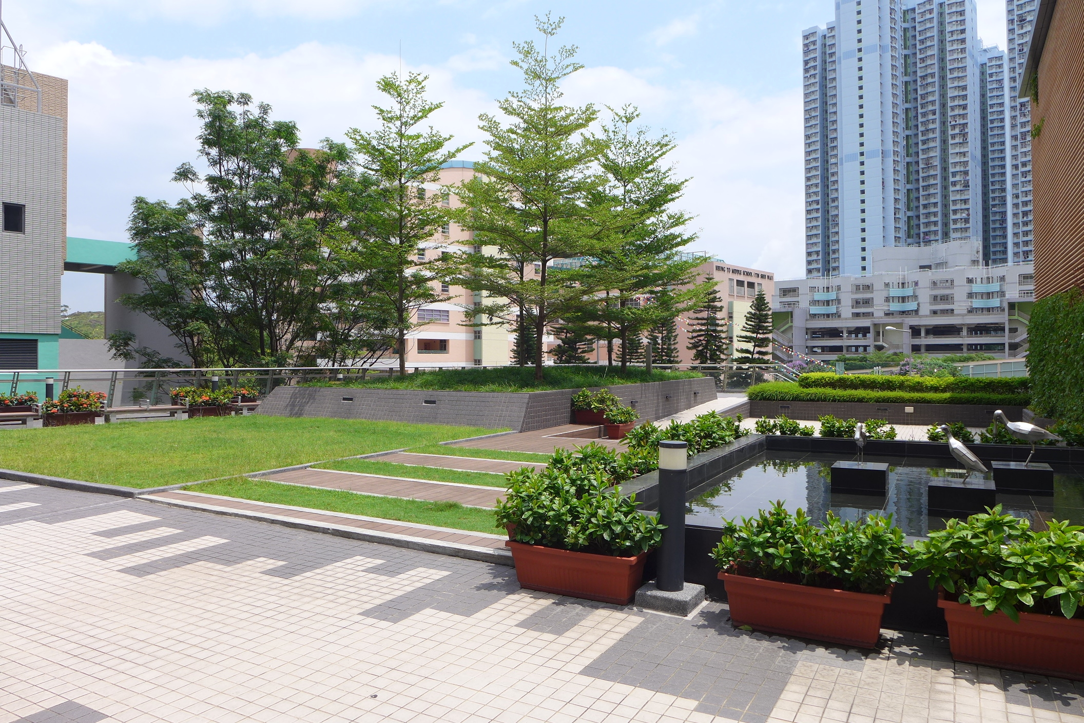 Tin Fai Road Sports Centre Garden